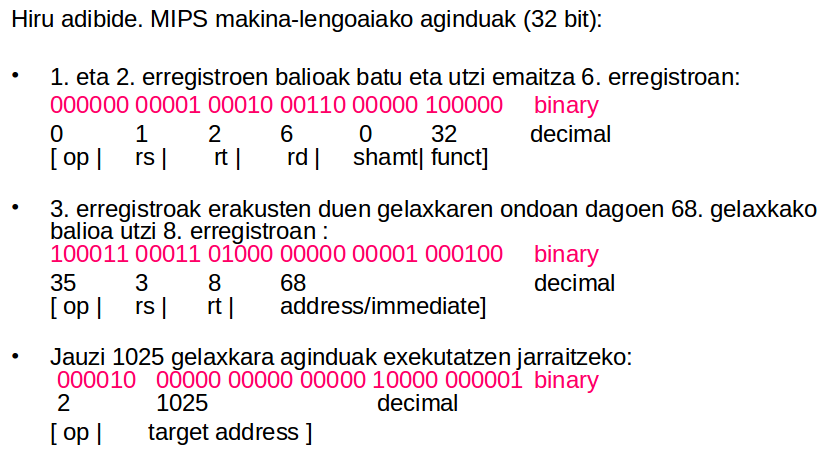 3 examples of instructions in machine code